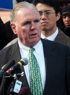 Former Boston Mayor Ray Flynn